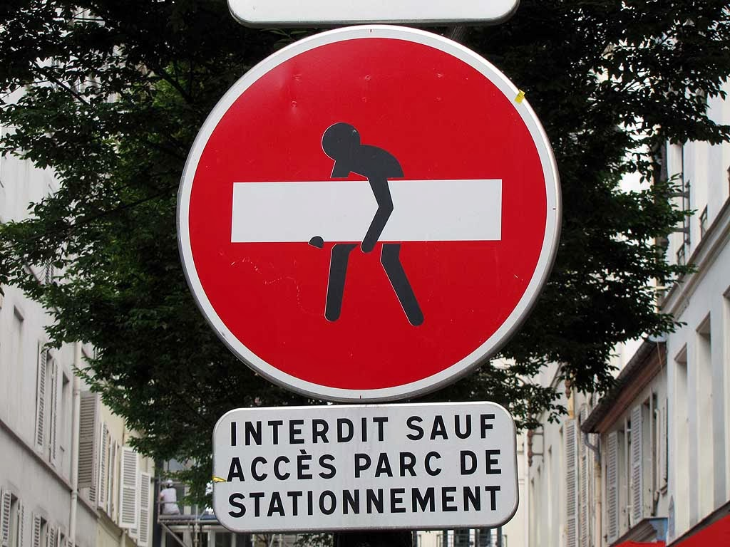 No entry sign modified by Clet Abraham, place du Marché Saint-Honoré, 1er arrondissement, Paris